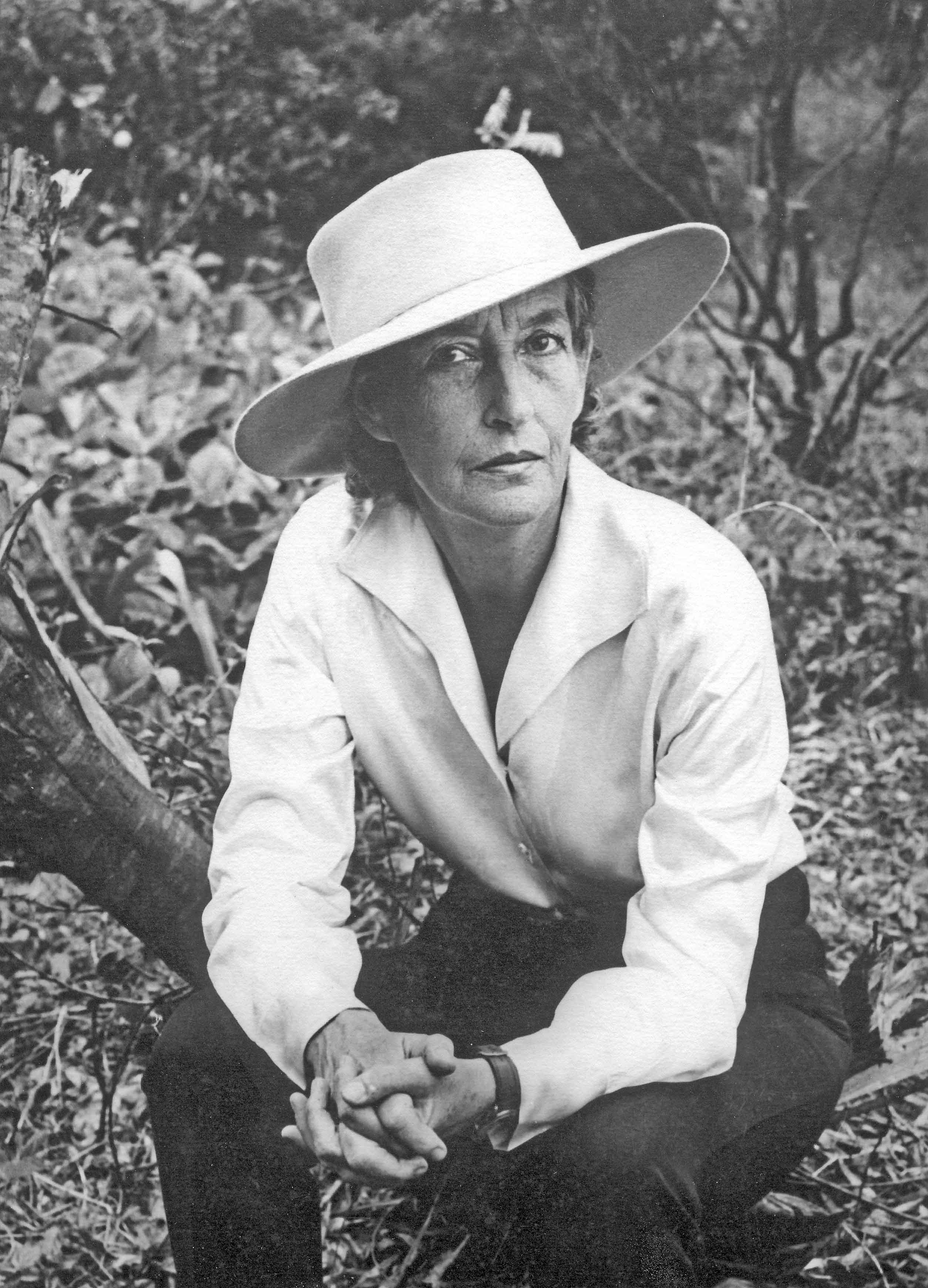 Photo of Vera Scarth-Johnson